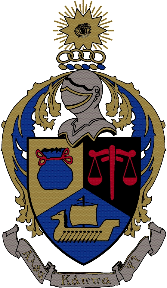 Wappen der Alpha Kappa Psi Fraternity